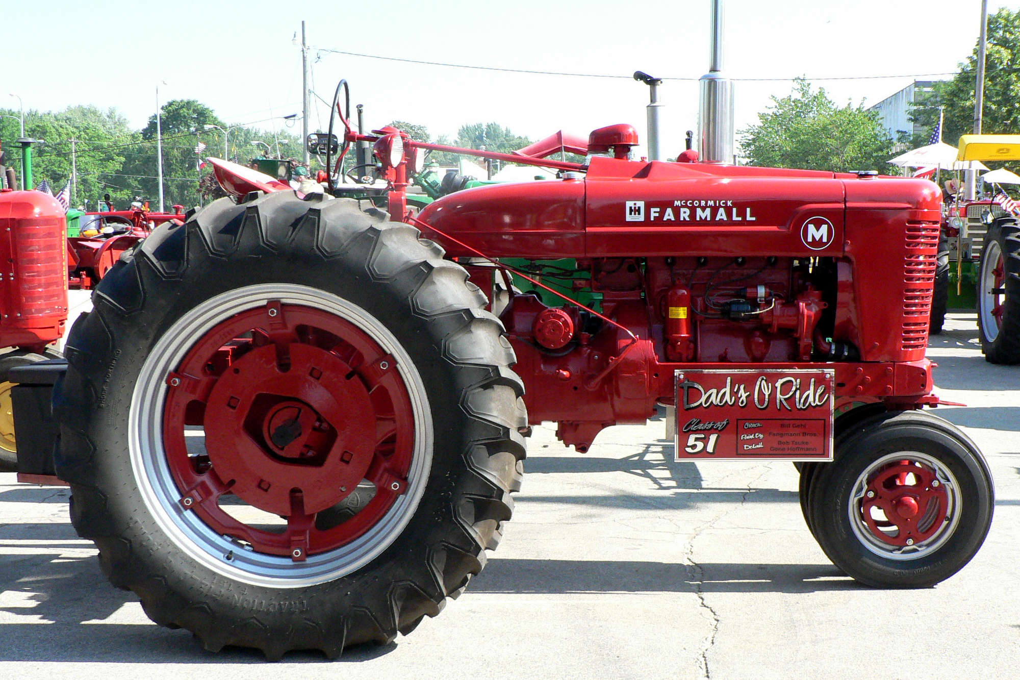 A tractor of the Farmall M series